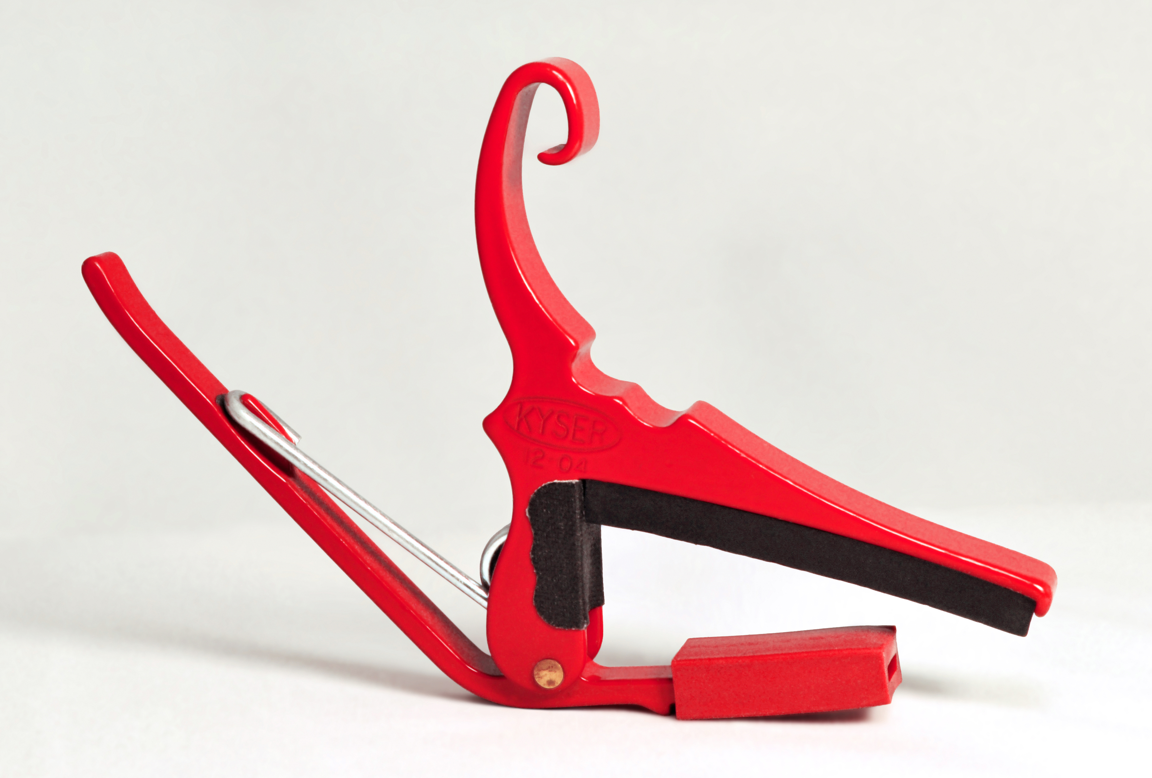 Trigger-style capo